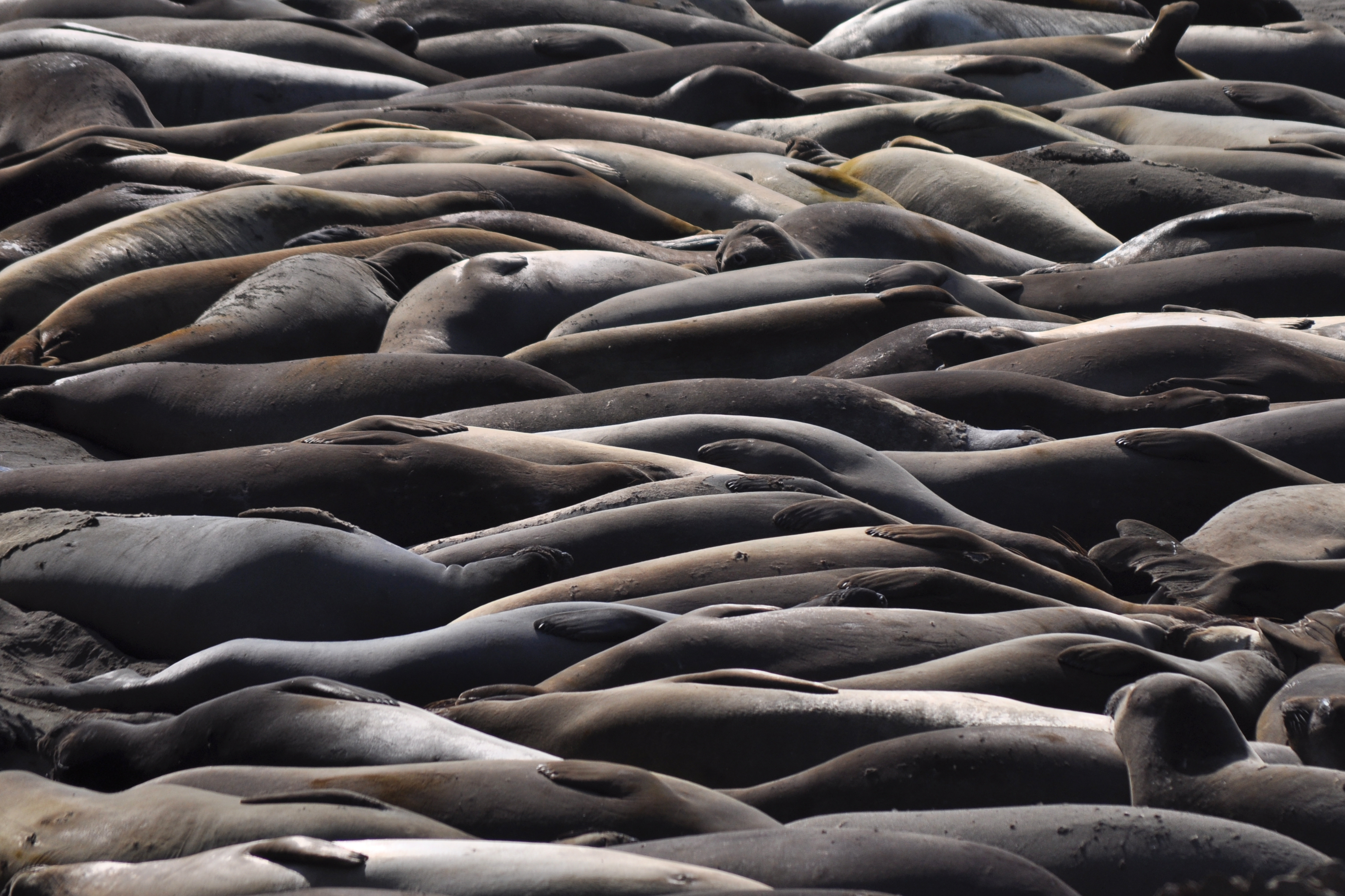 Elephant Seals basking in the sun at Piedras Blancas, just off of Highway 1 in California